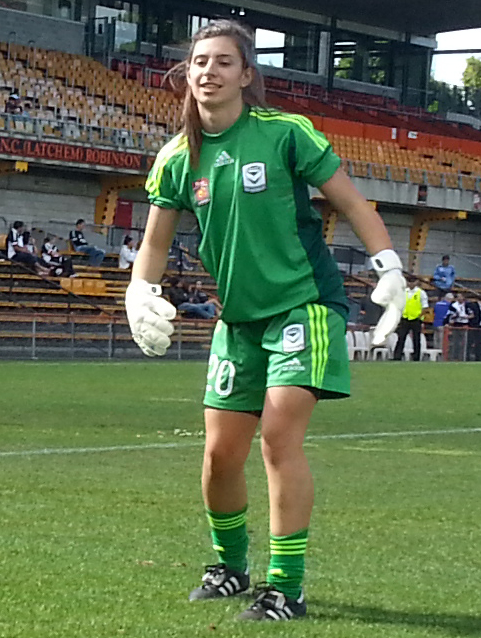 Cassandra Dimovski (Melbourne Victory Women) at Leichhardt Oval, Sydney.